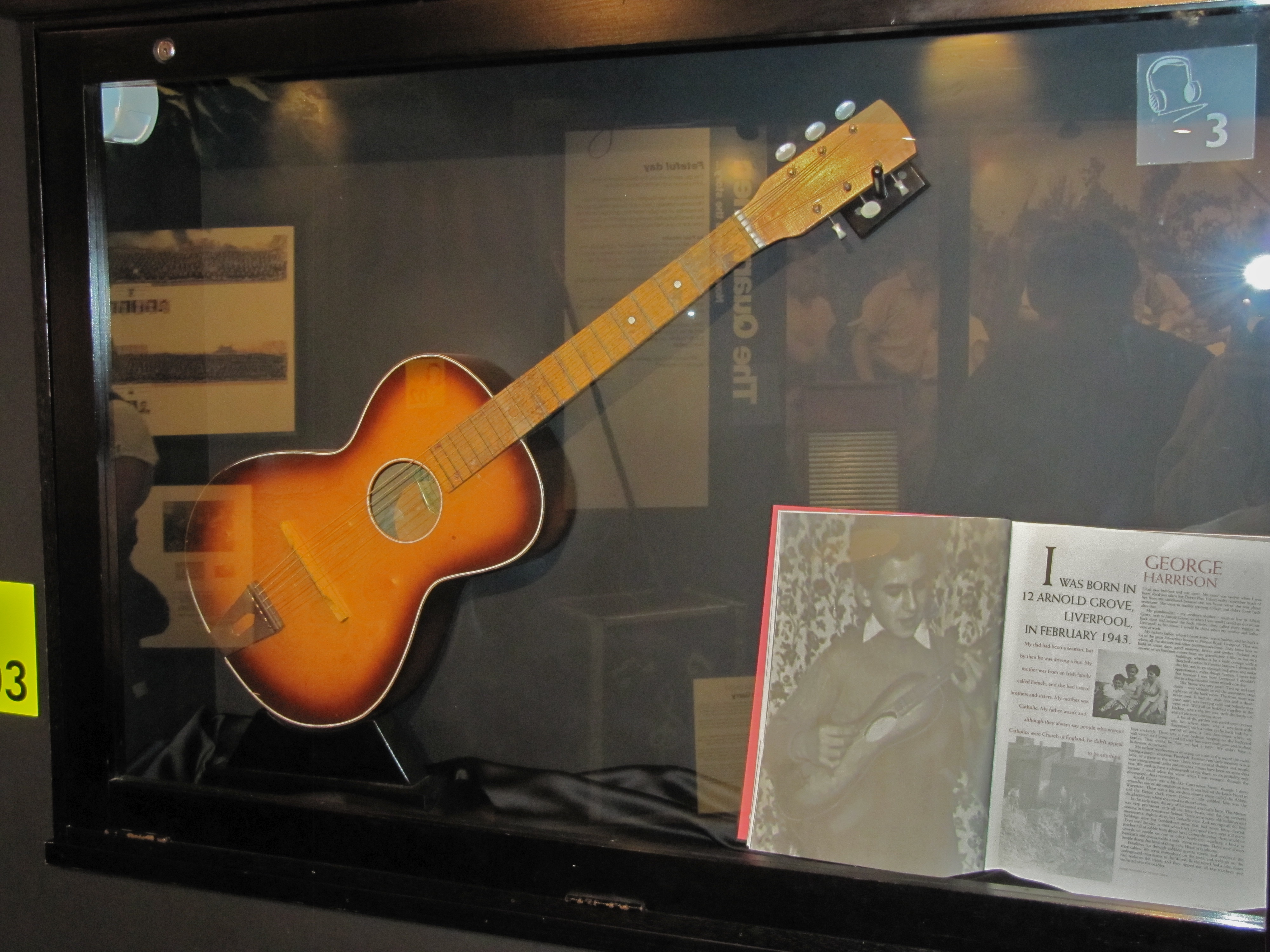 Harrison's first guitar (The Beatles Story)